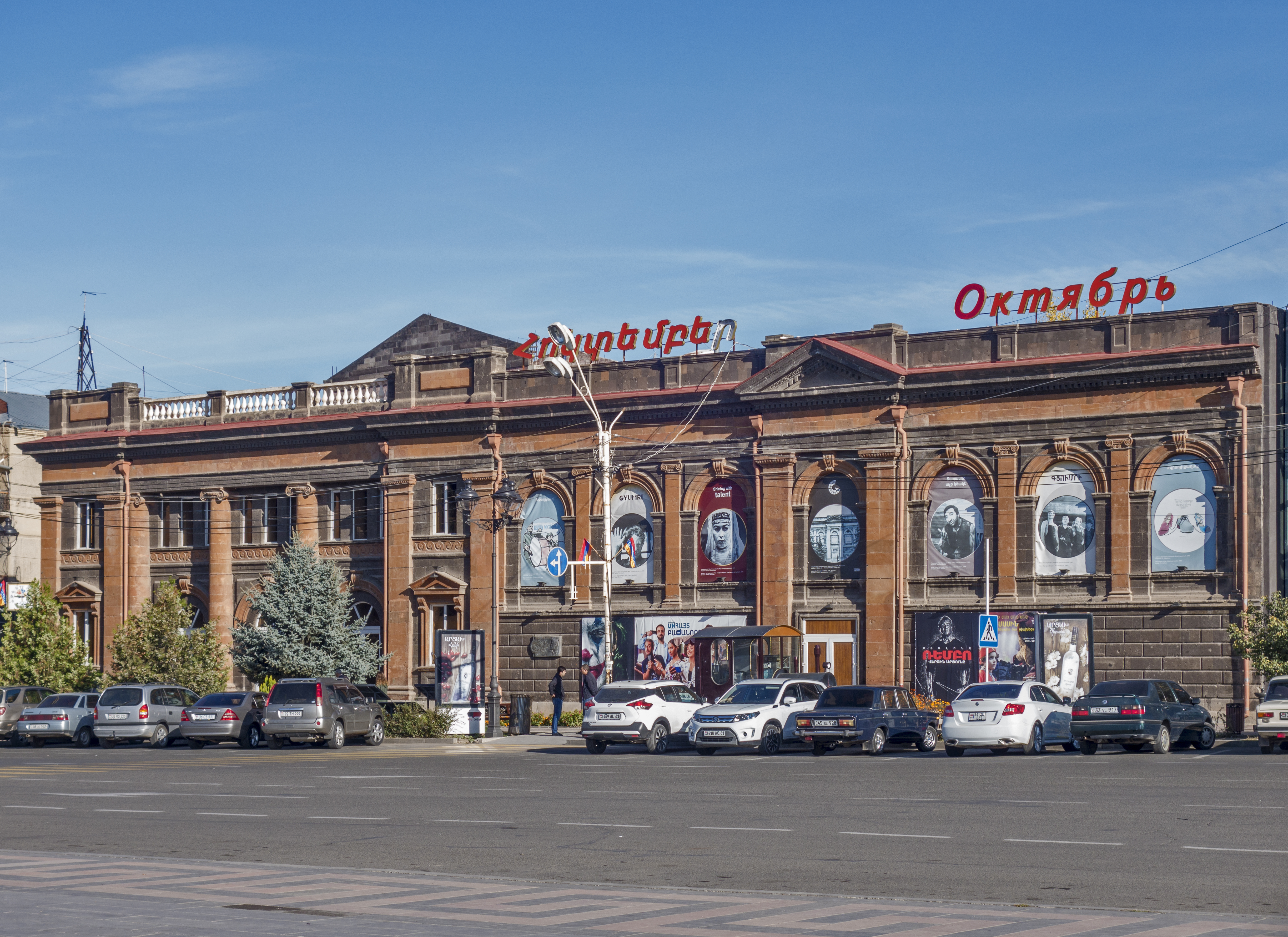 "October" cinema hall in Gyumri, Armenia. 1/4.928